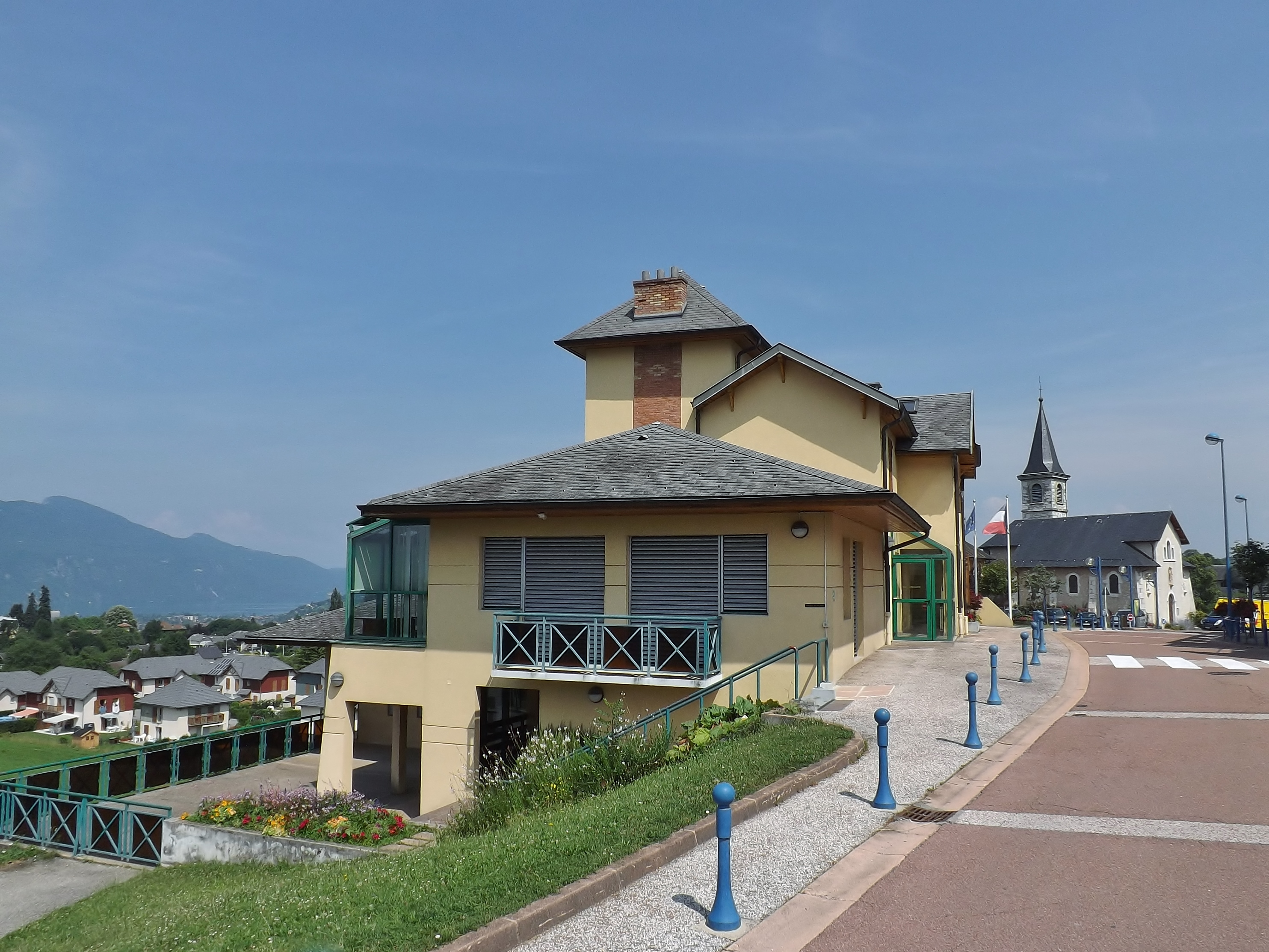 Sight of the French commune of Mouxy city hall and church, near Aix-les-Bains in Savoie. At the background can be seen some part of the lac du Bourget lake.